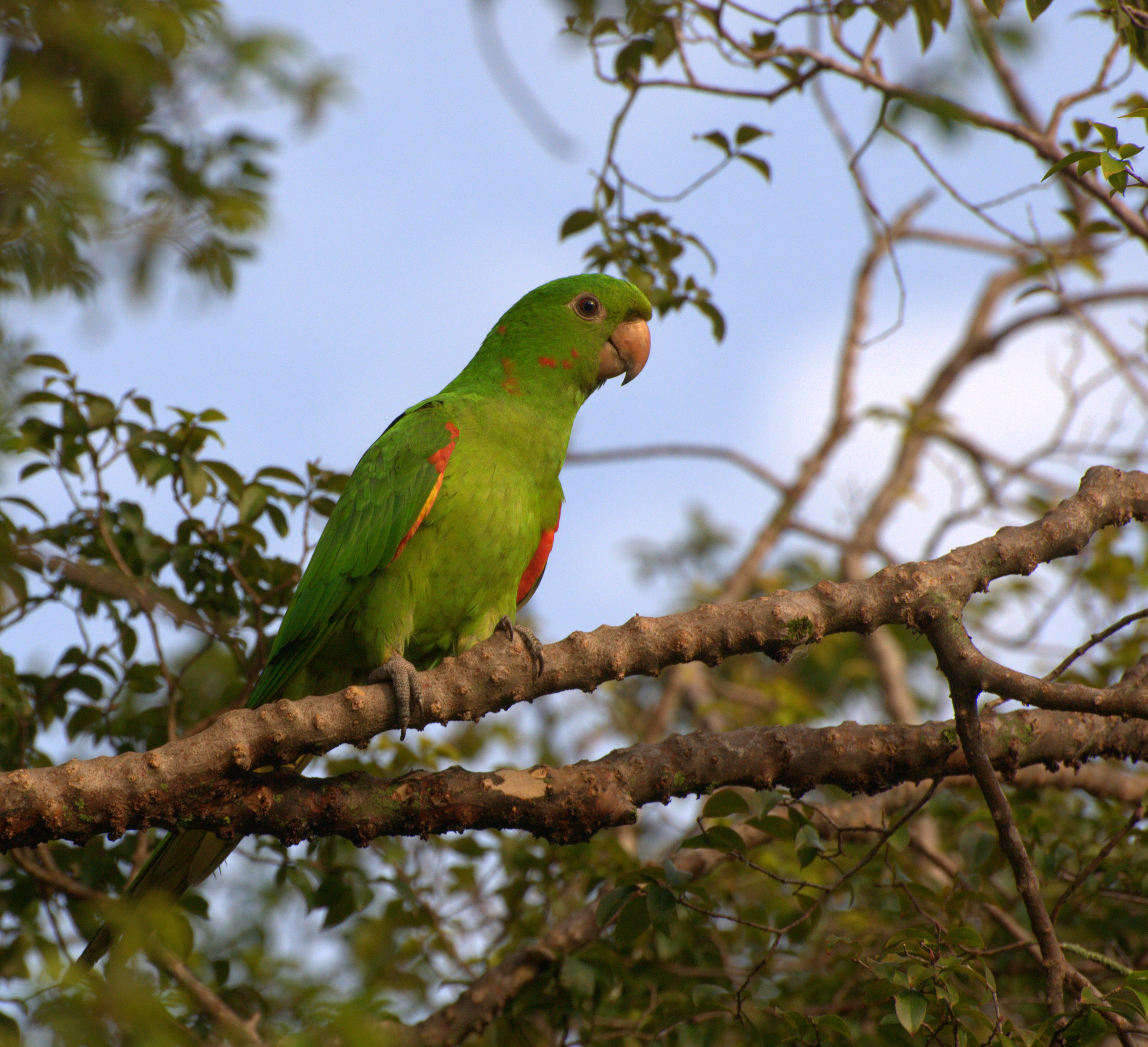 White-eyed Parakeet (also known as the White-eyed Conure) in Piraju, São Paulo, Brazil.